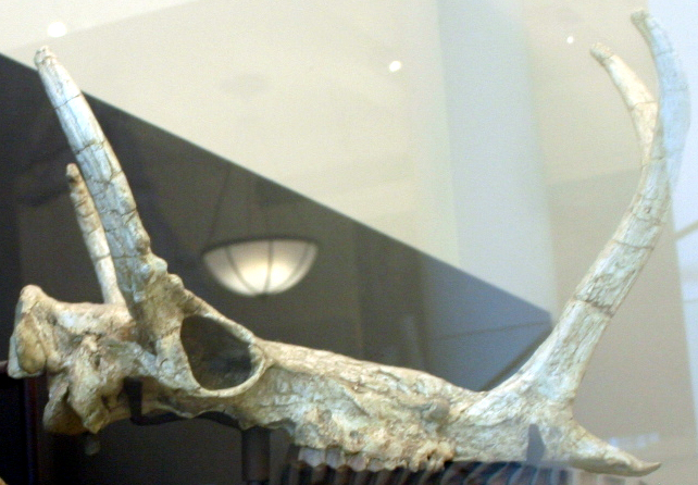 joined horn and double horn Visit my blog at